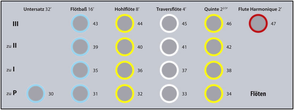 HarderVoelkmann-Orgel_Stockwerk_07